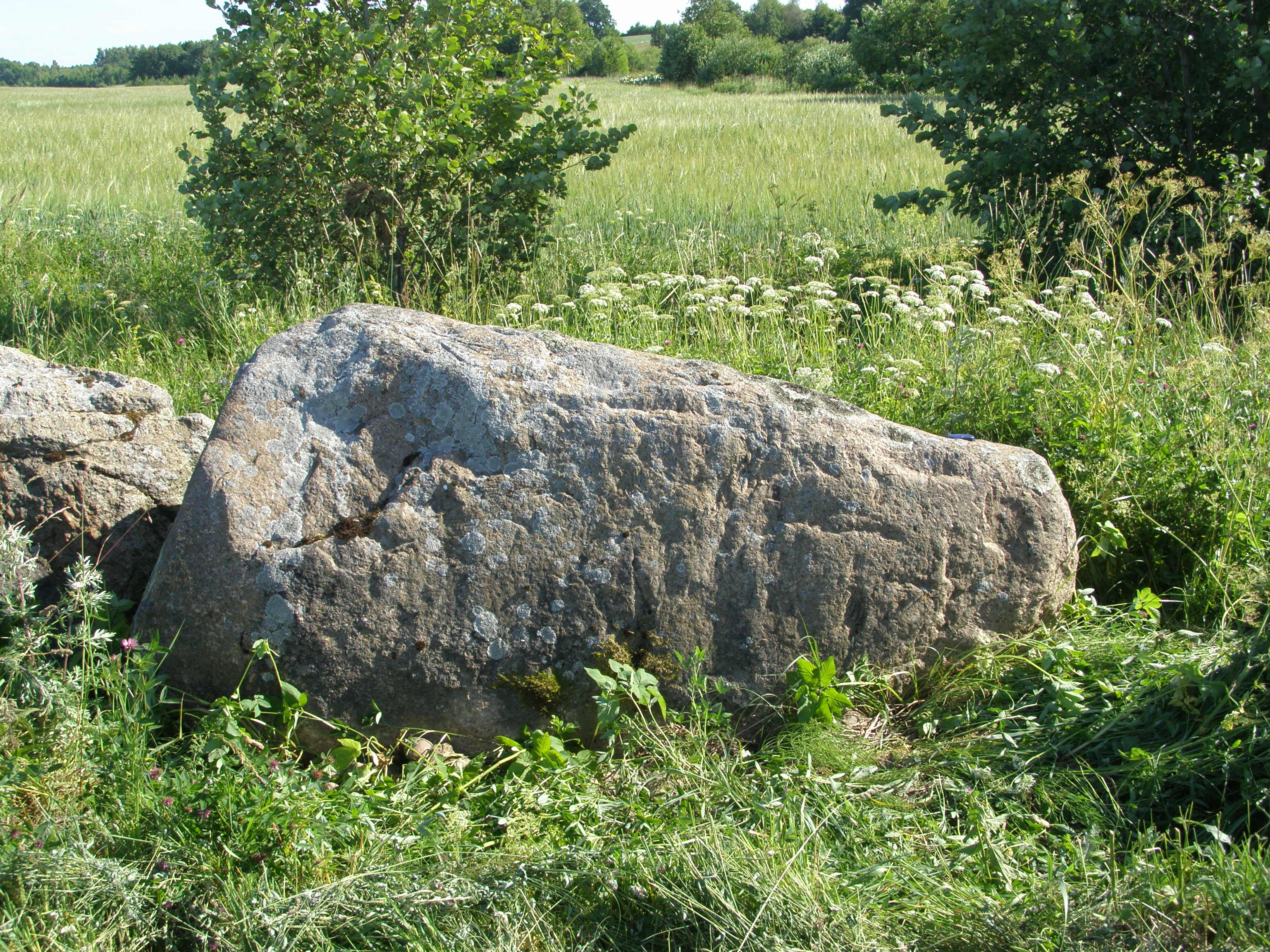 Kusai stone, Skuodas district, Lithuania